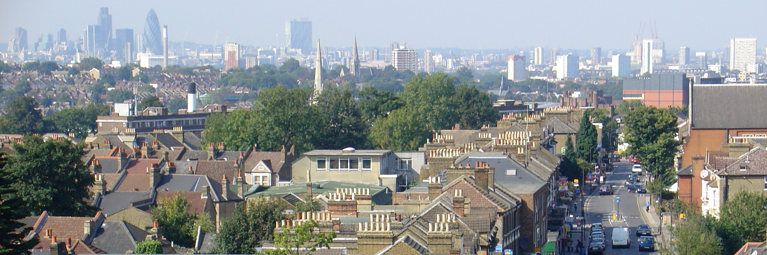 View from Hither Green Lane to City of London